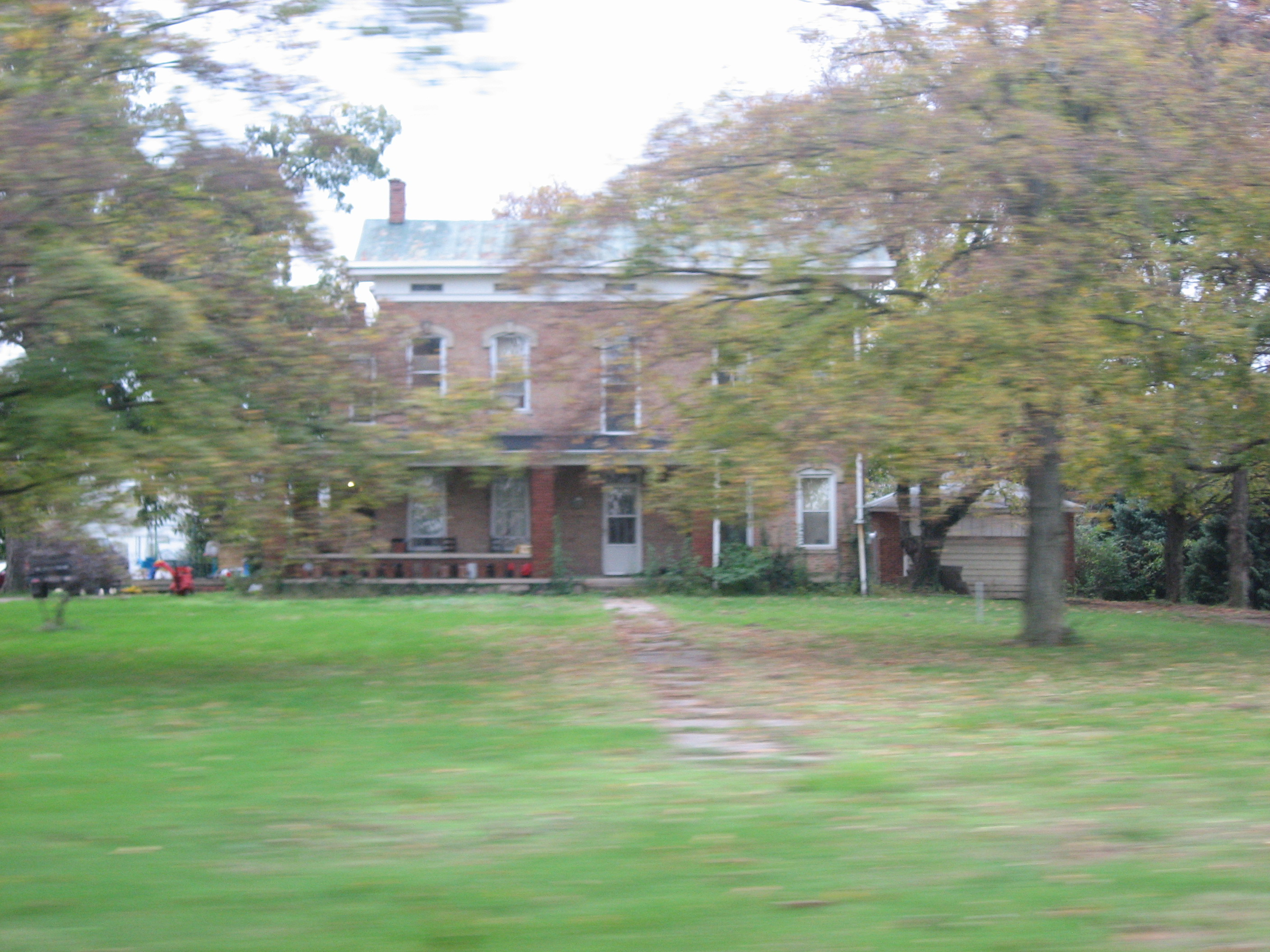 Front of the John Kennel Jr. Farmhouse, located at 2251 Wayne-Madison Road south of Trenton in St. Clair Township, Butler County, Ohio, United States. Built in 1846, it is listed on the National Register of Historic Places.